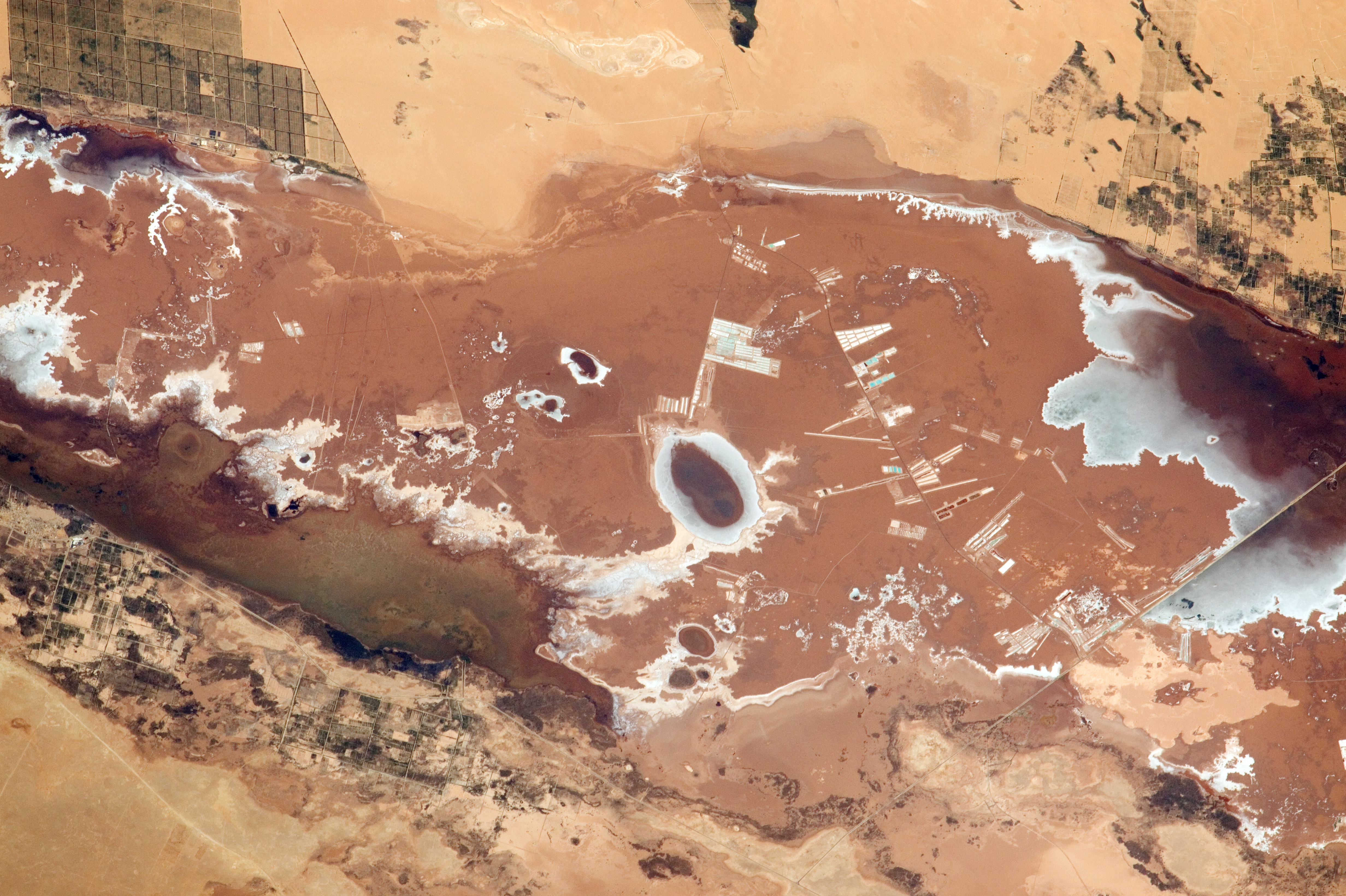 NASA astronaut Scott Kelly took this picture of the water filled Siwa Oasis in the northwestern Egyptian desert. Water is also treasured within the International Space Station where recycling plays an important role in conserving and reusing the precious life giving liquid.